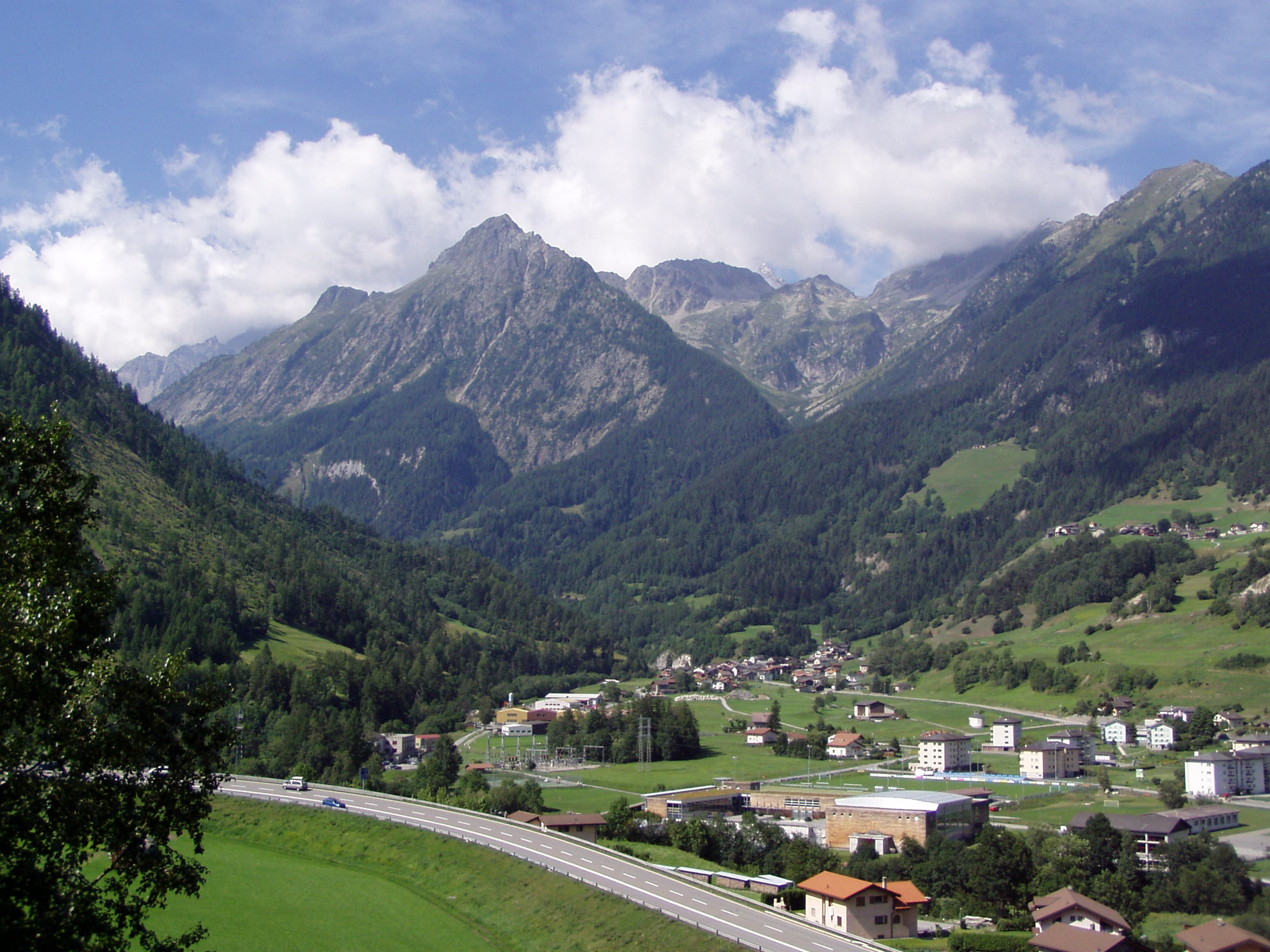 Orsières and the Alps, Switzerland. European route E27 (Swiss road N21).